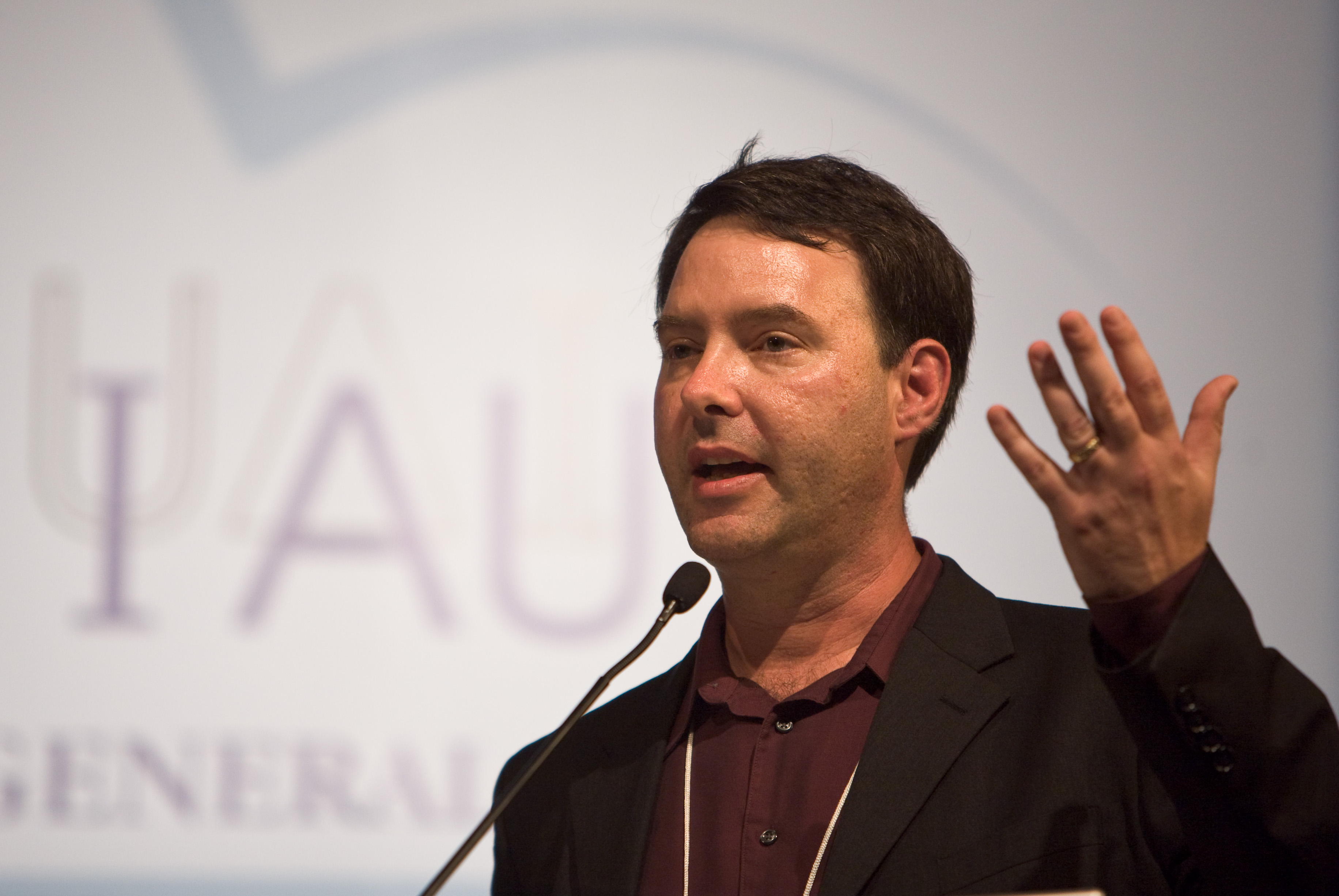 Astronomer and planetary scientist Jim Bell discussing "Water on Planets" during the International Astronomical Union's 2009 General Assembly in August 2009 in Rio de Janeiro, Brazil